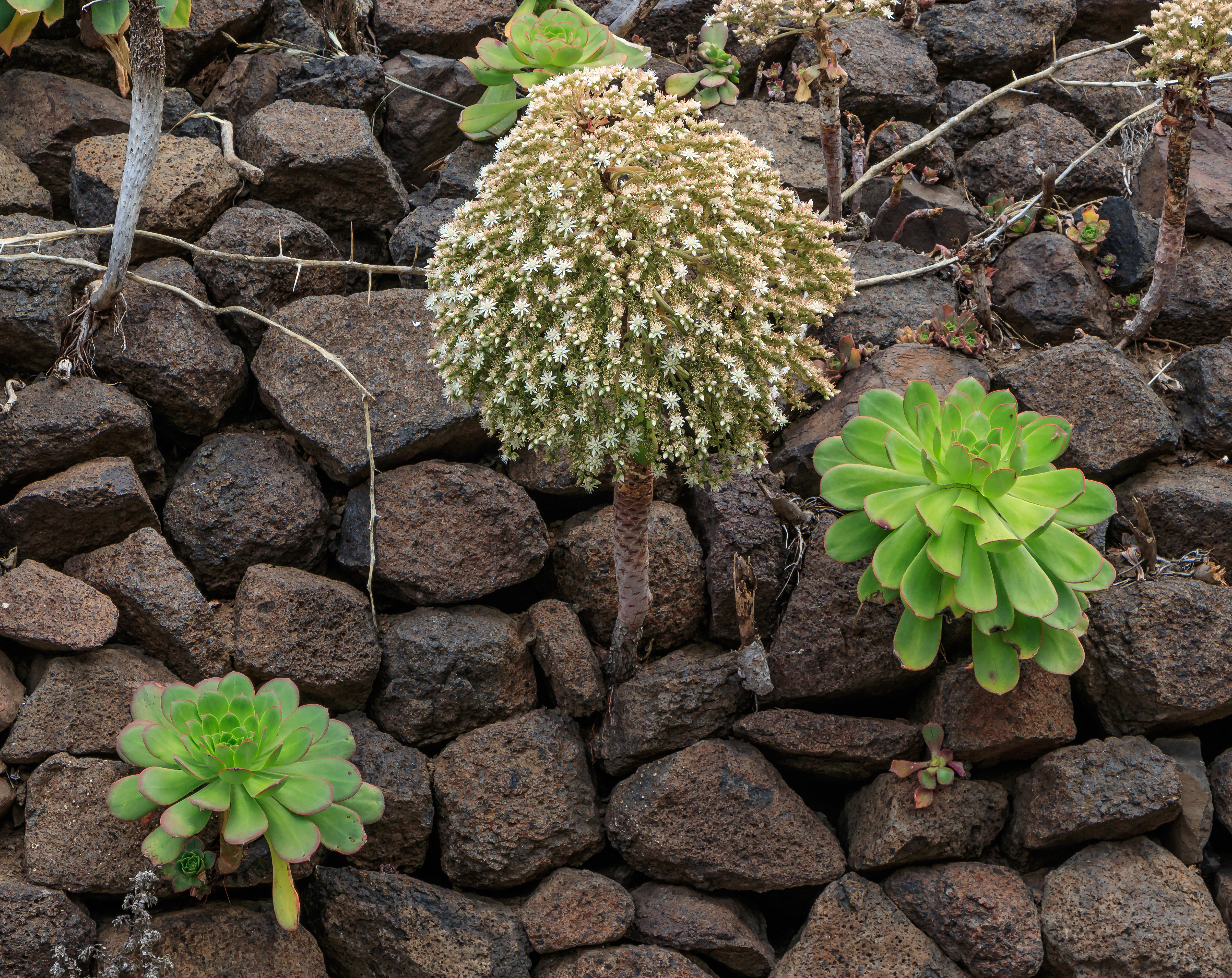 Aeonium urbicum (C.Sm. ex Hornem.) Webb & Berthel., habitus; Masca, Macizo de Teno, Tenerife, Canary Islands, Spain.